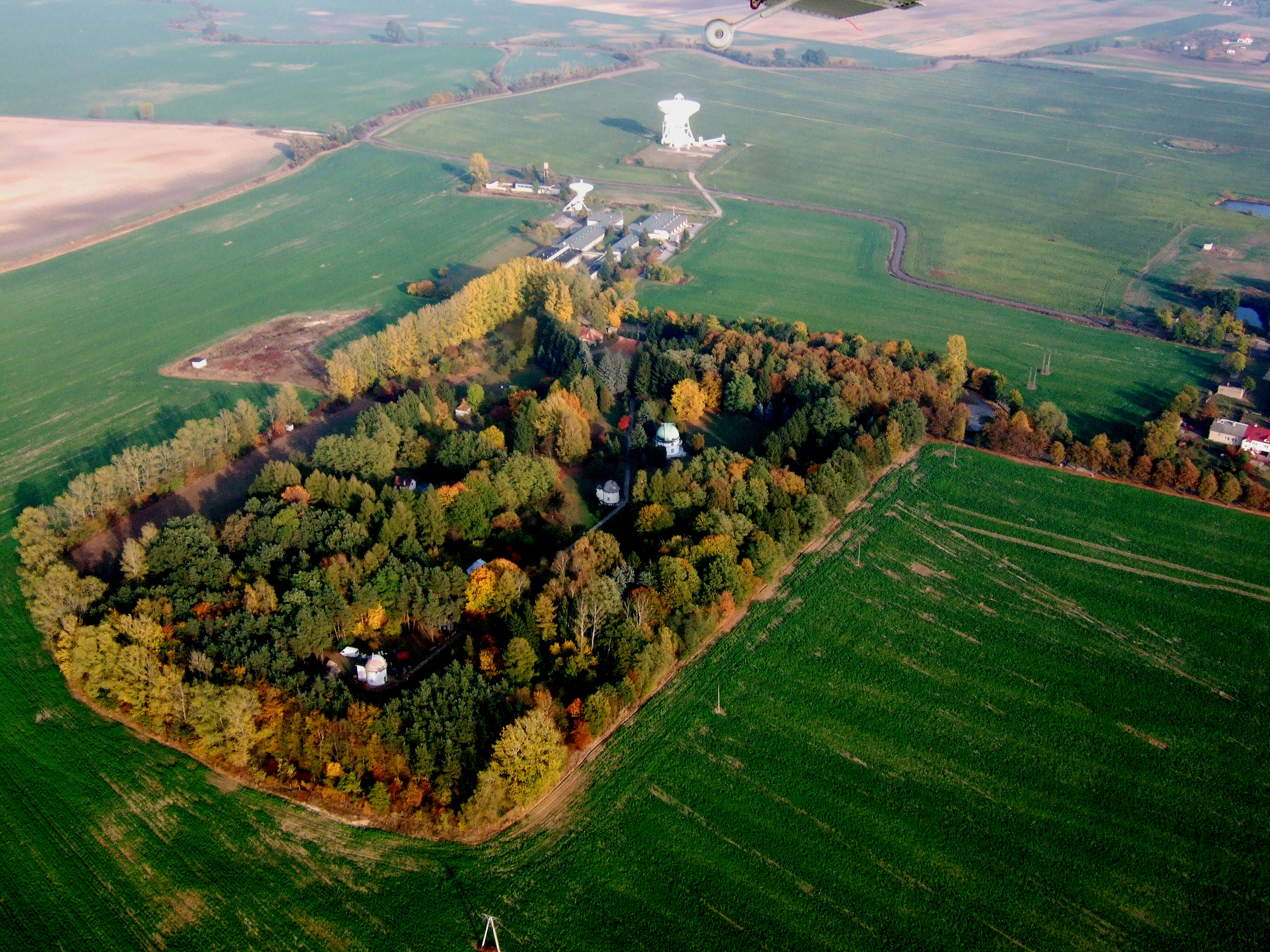 Astronomical observatory in Piwnice near Torun, Poland - aerial view. photo author: Andrzej Kus